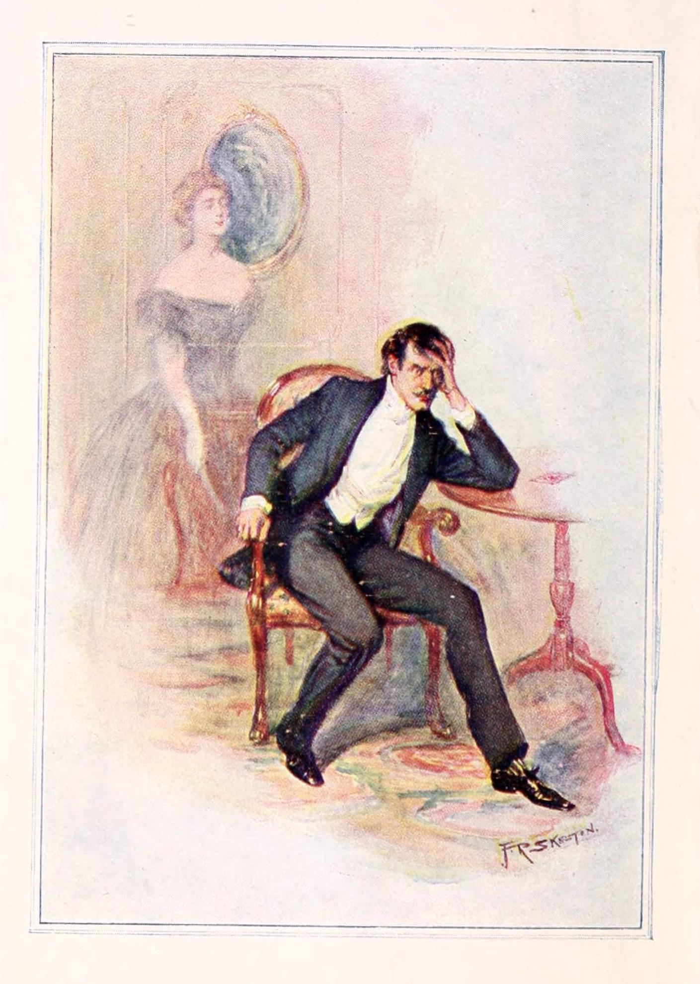 Illustration from the Book Smoke (Fumee) by Turgenjev: Litwinov